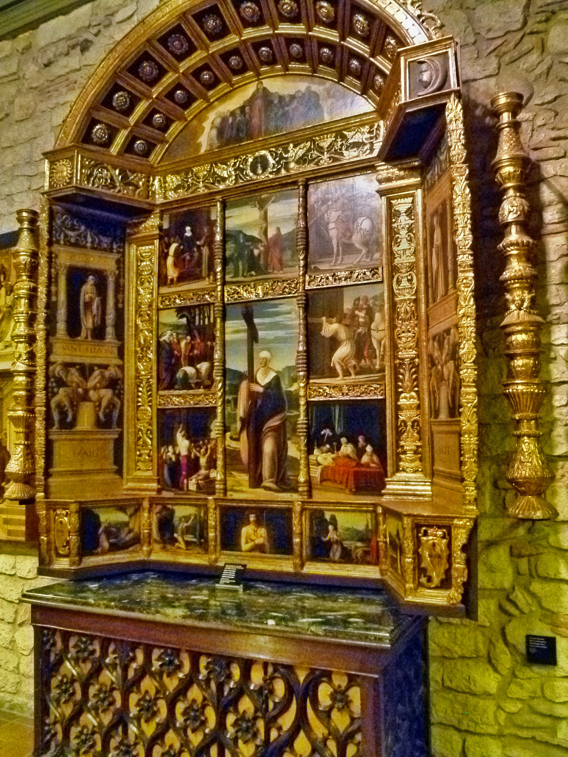 "Altarpiece of St. Helen" (1521) painted by by Pere Fernandez (1519-1520) and Antoni Norri (1517-1519); sculptor : Antoni Matteu; in the treasury of the Cathedral of Girona, Spain